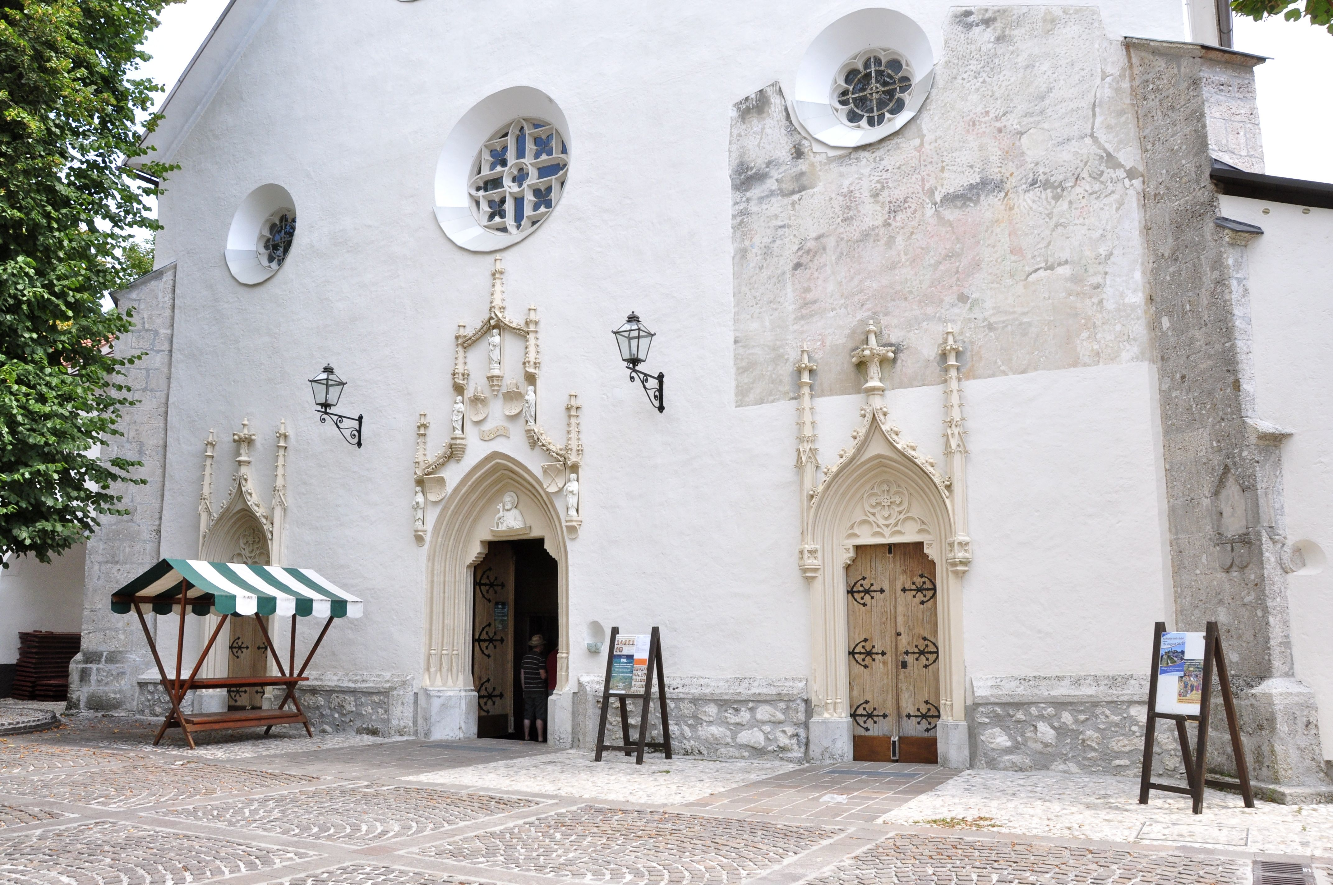 The entrance portals of St. Peter's Church, municipalityRadovljica, municipality Radovljica, Upper Carniola, Slovenia, EU